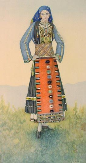 Greek Macedonian costume of Kavakli (Macedonia) - Greek Costume Collection by NICOLAS SPERLING (Russia 1881-1940 / act: Athens).